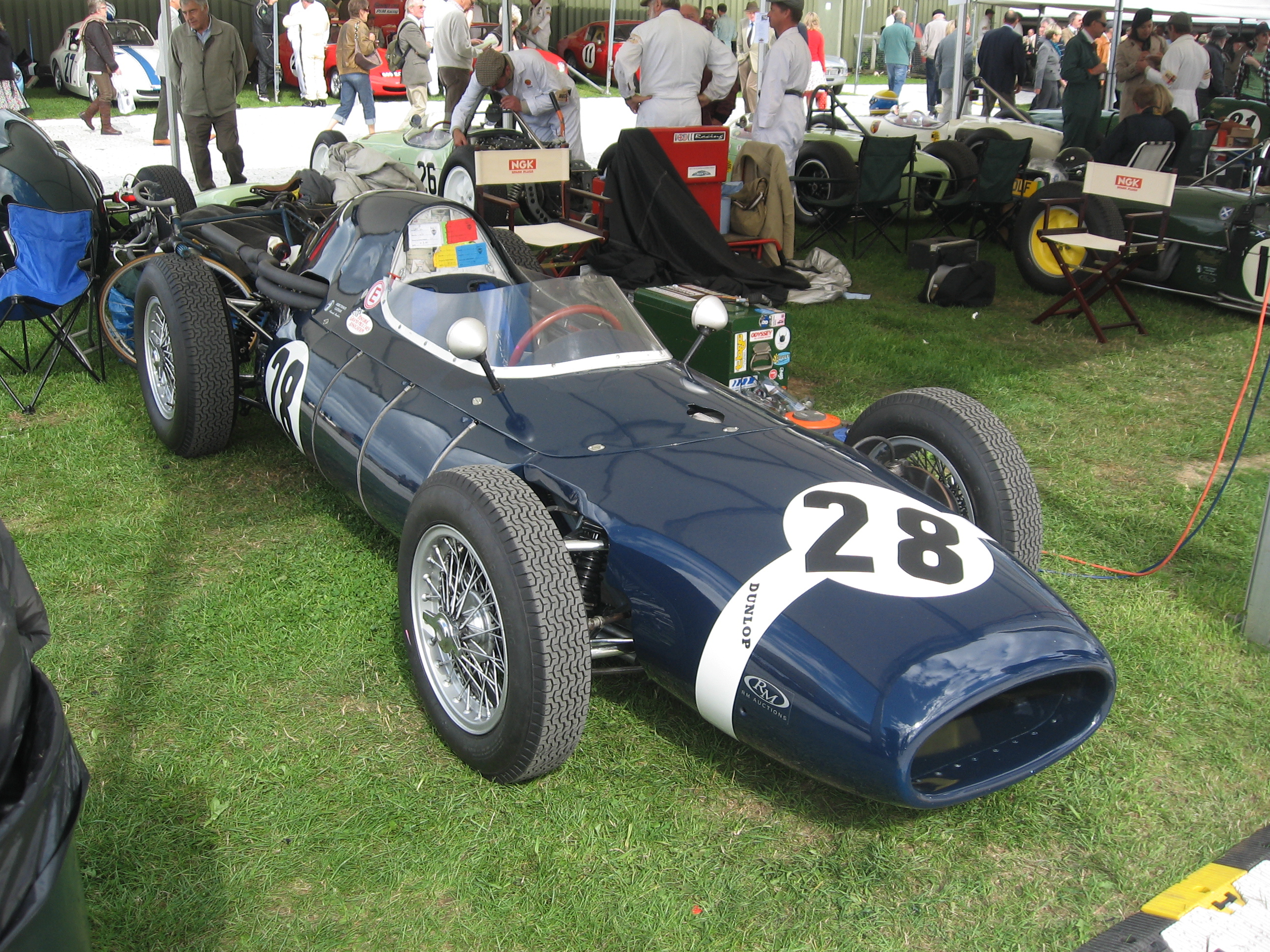 The aborted Walker Special Formula One car, designed by Rob Walker Racing chief mechanic Alf Francis, but abandoned dut to regulation changes for the 1961 season.